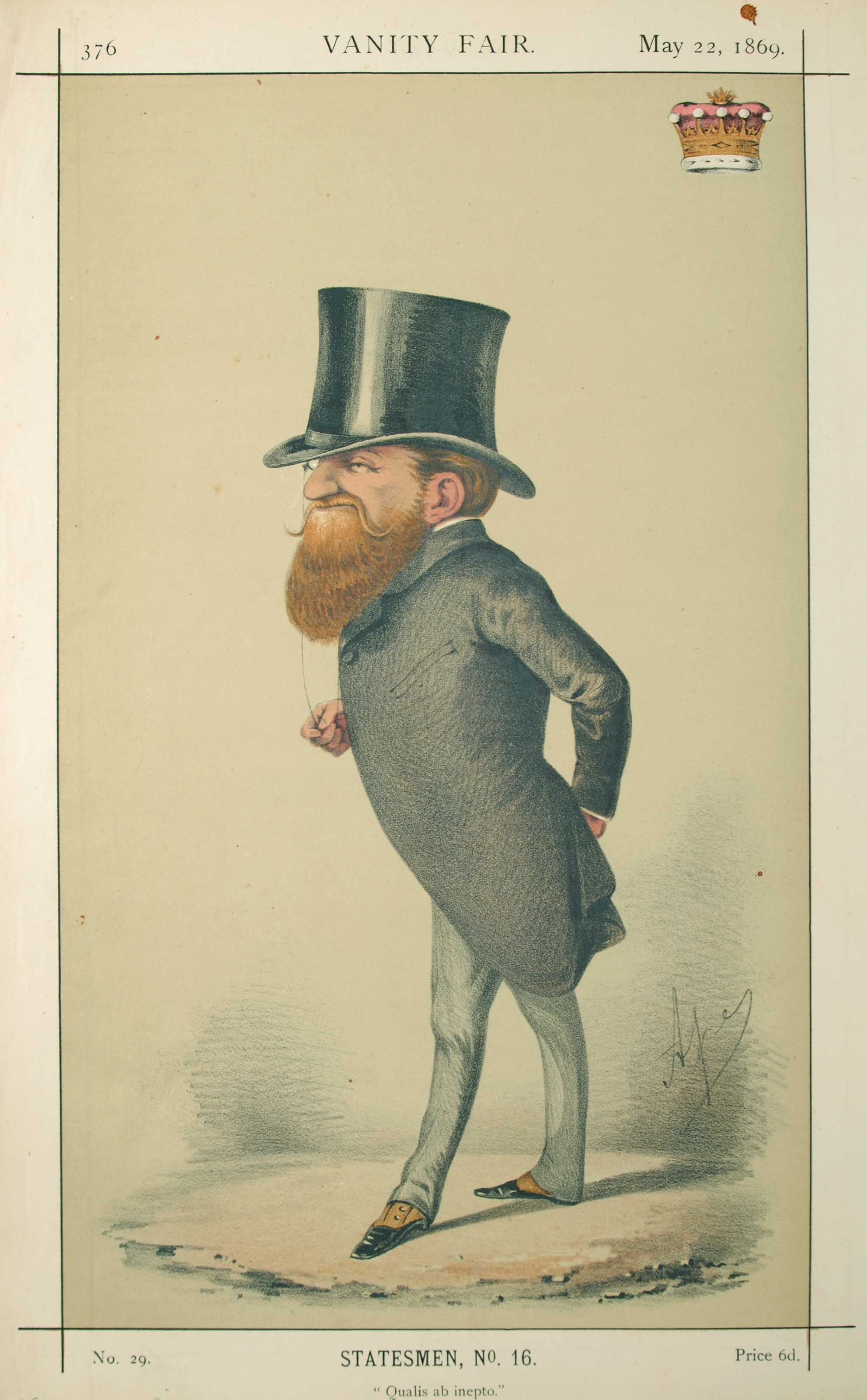 Statesmen No.16: Caricature of Lord de Grey and Ripon. Caption reads: "Qualis ab inepto."